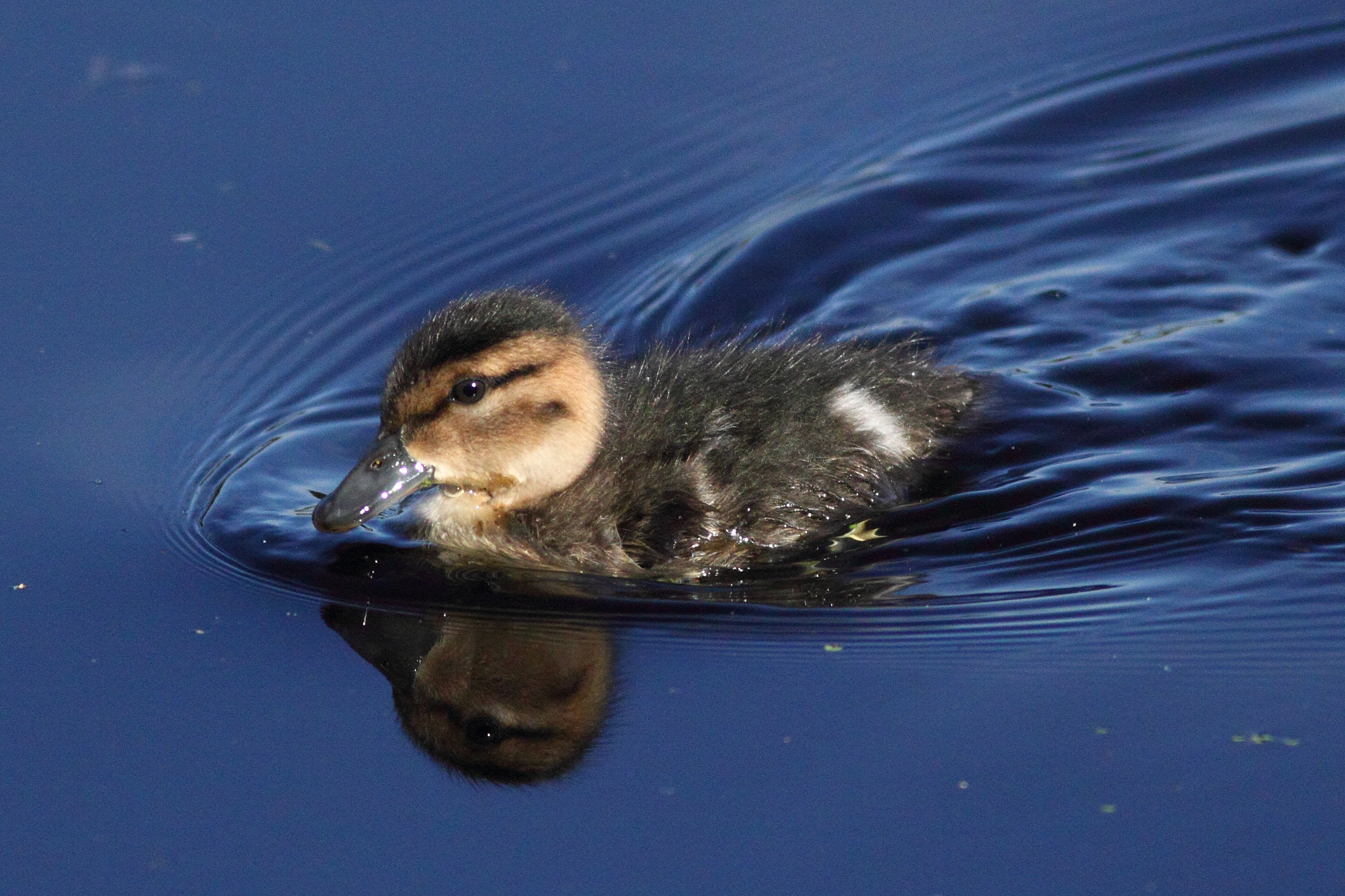 Chestnut Teal Anas castanea duckling at Coolart Wetlands, Mornington Peninsula, Victoria, Australia